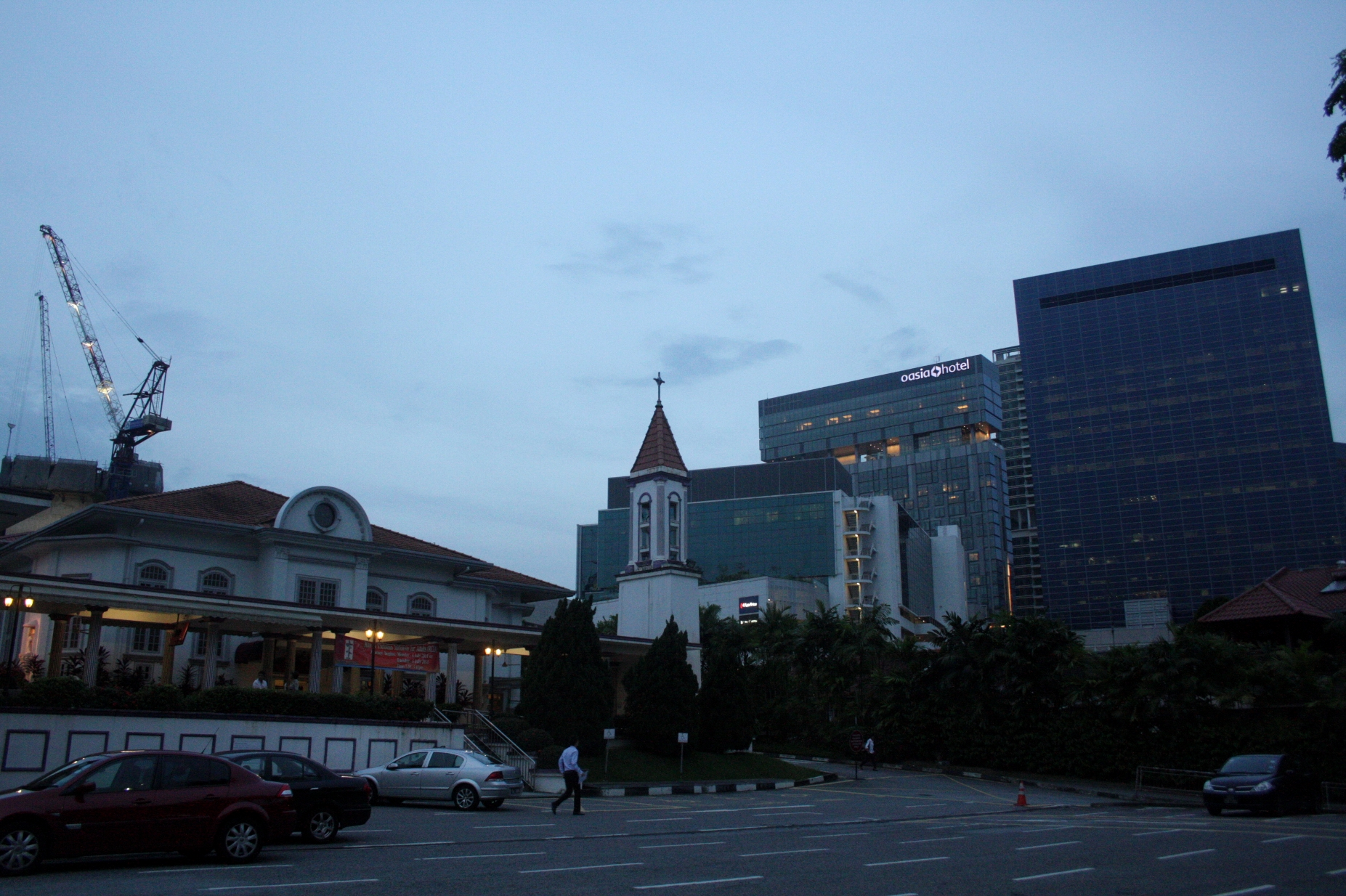 Church of St. Alphonsus (Novena Church) surrounding with the busiest neighbourhood in Singapore, May 2011